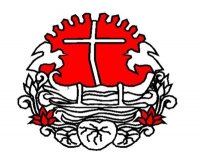 this is symbol of GKPB